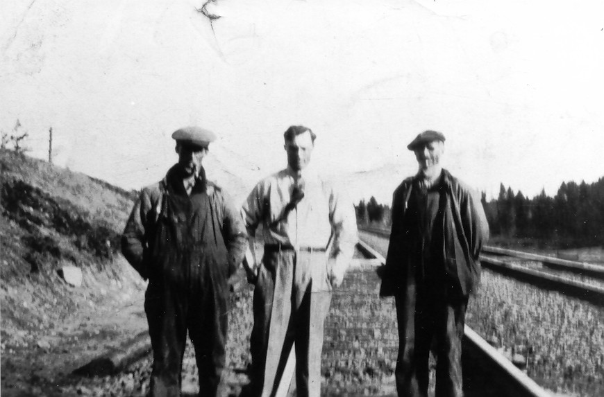 Finnish immigrant, Felix Järvimäki, in the centre of the picture - in Canada (Fort William, Ontario) around 1924, from a family album. Photoowner Harri Blomberg.